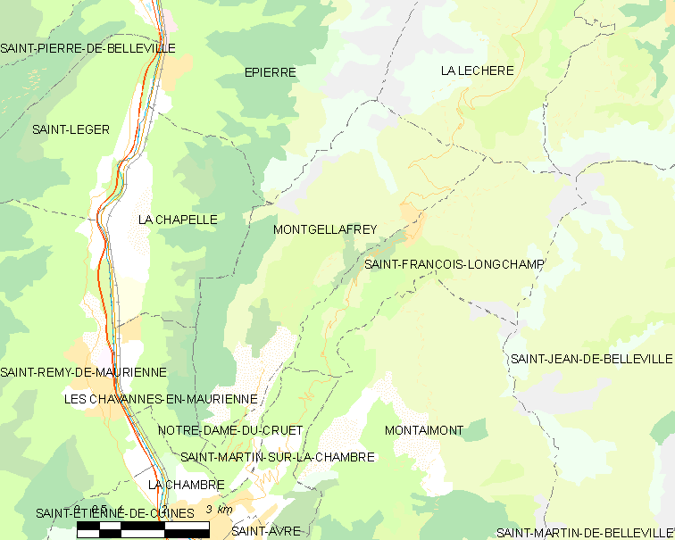 Map of French municipality